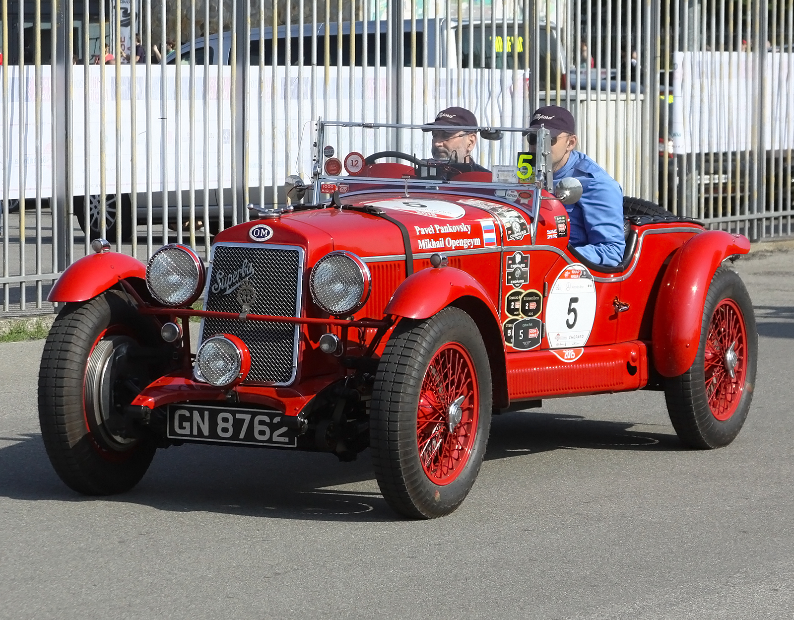 OM 665 Superba SSMM 2.35 Open Tourer Carrozzeria Sport SA 1930 at the Mille Miglia 2015, entered in the original Mille Miglia